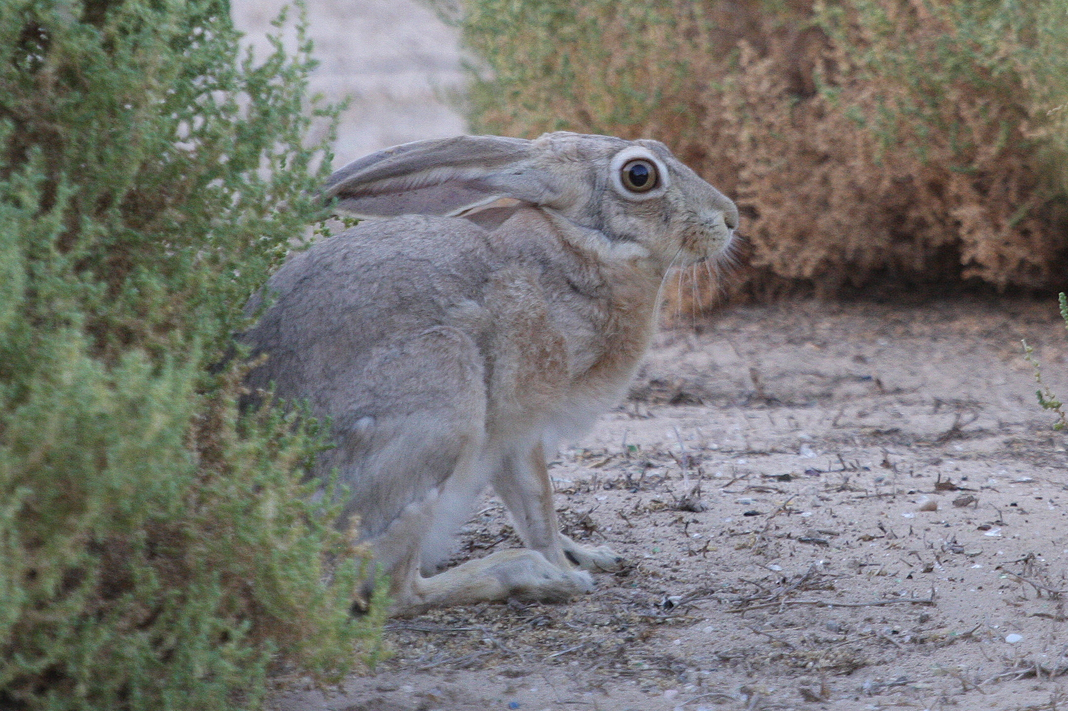 Cape Hare (Lepus capensis arabicus)